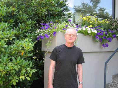 Leon Simon, Australian-American mathematician, visiting Oberwolfach in 2005.